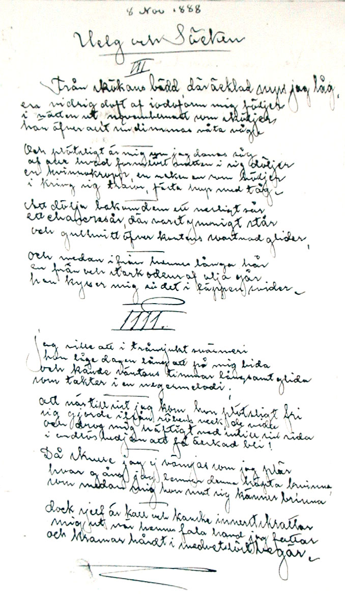 Two poems of Emil Kléen,swedish poet (1868-1898), in a letter from Kléen to his friend Albert Sahlin.